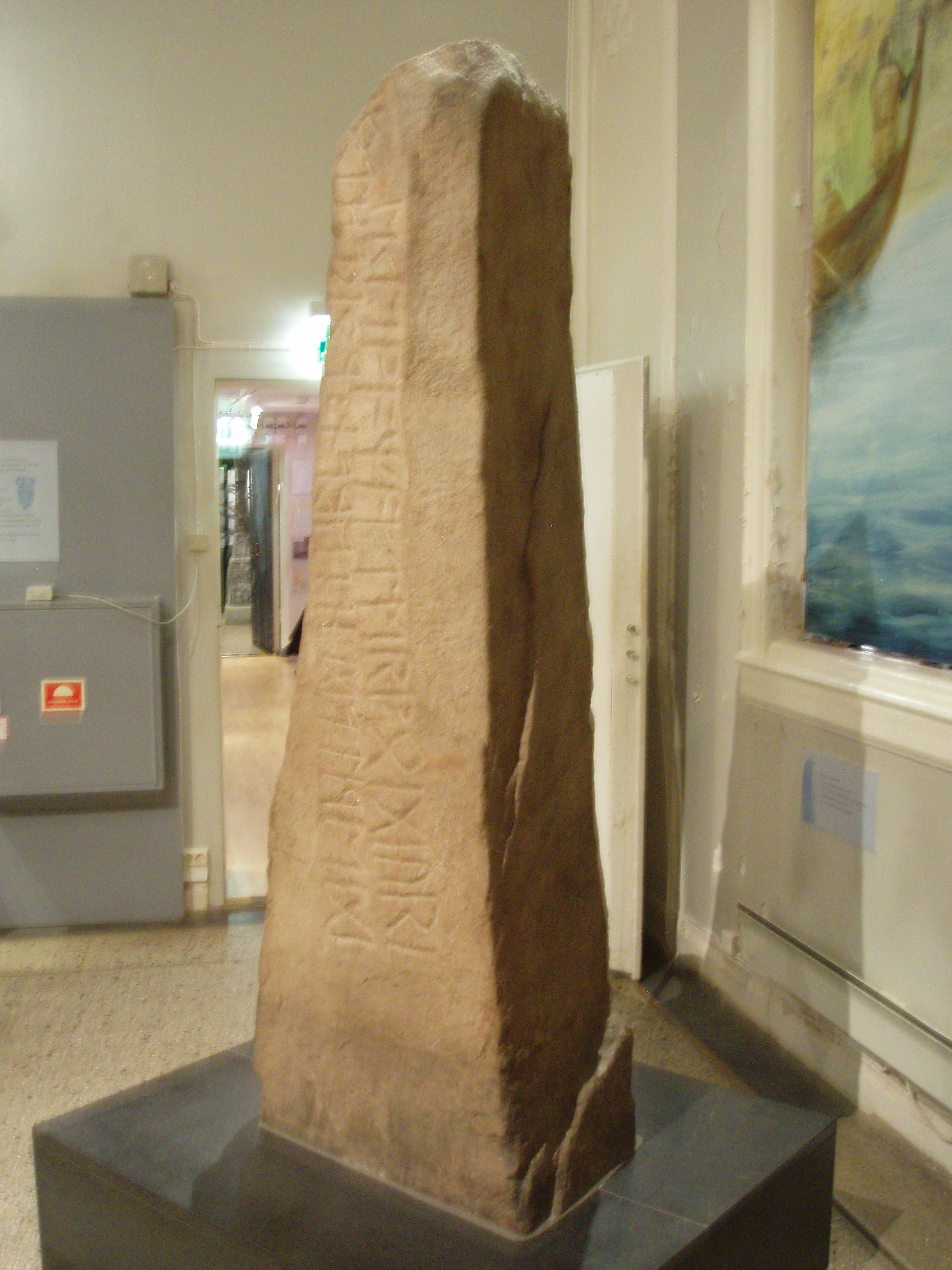 One side of the Tune runestone, as displayed in the Museum of Cultural History in Oslo, Norway. According to the object display the stone was raised by Sarpsfossen (a waterfall) around the year 400 CE.